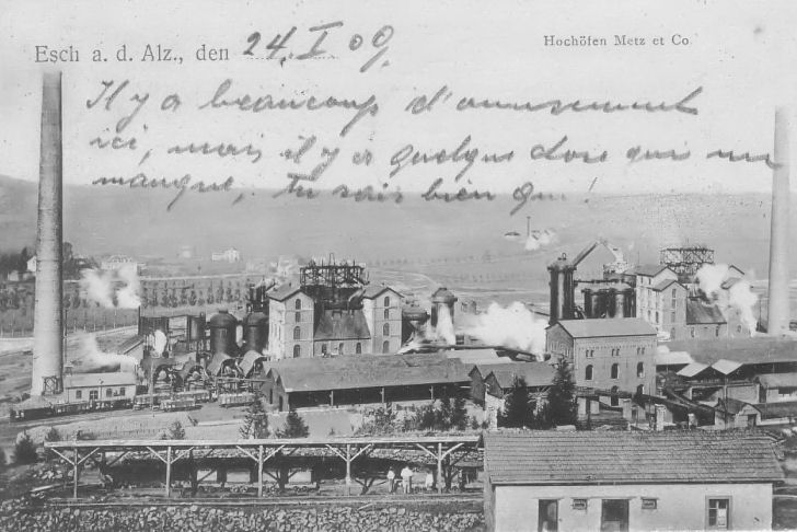 Blast furnaces Metz & Cie, Esch-sur-Alzette, before 1909.